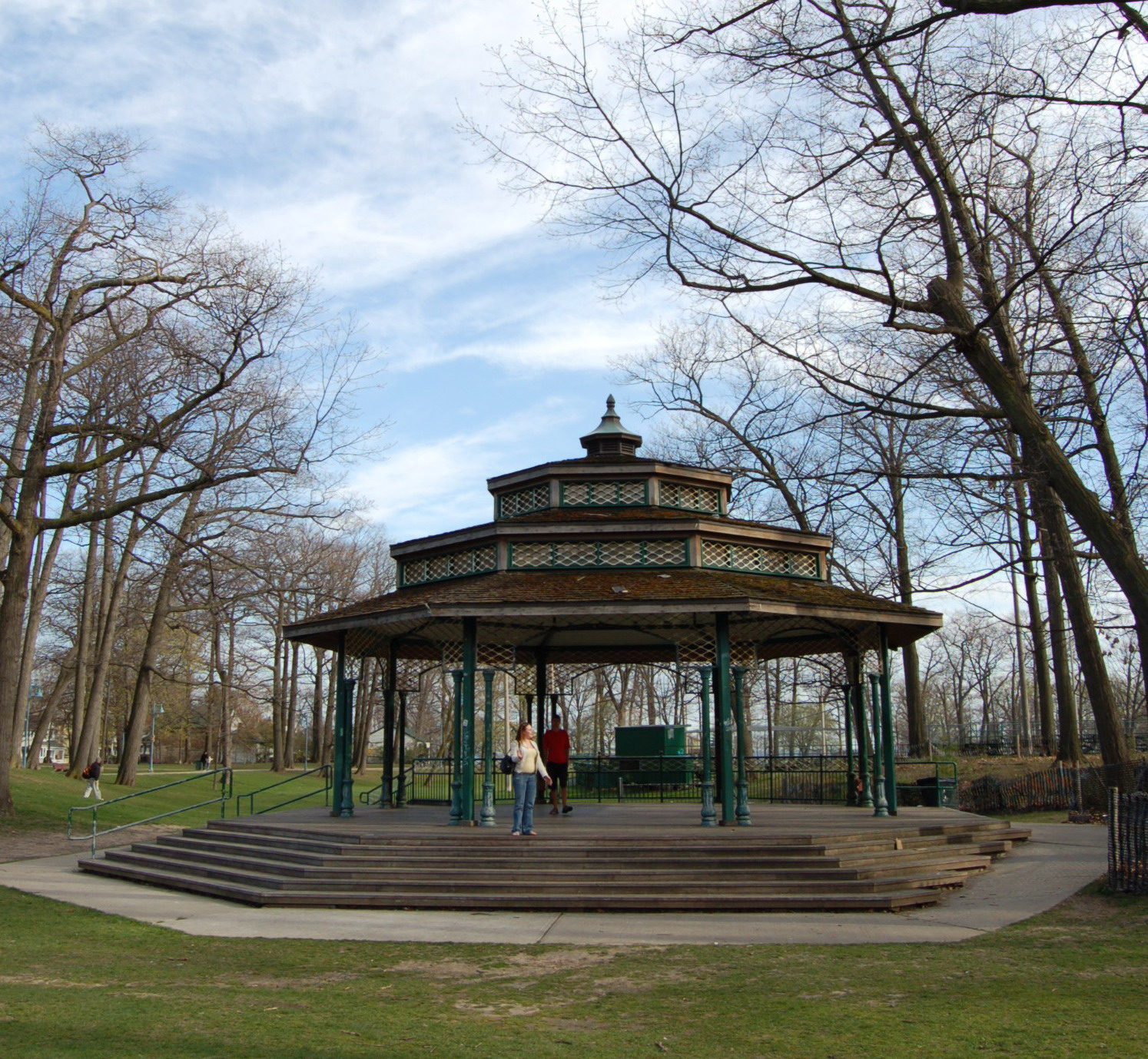 An updated and higher resolution image of the Gazebo in the Beaches. Photo taken by Raymond Kao